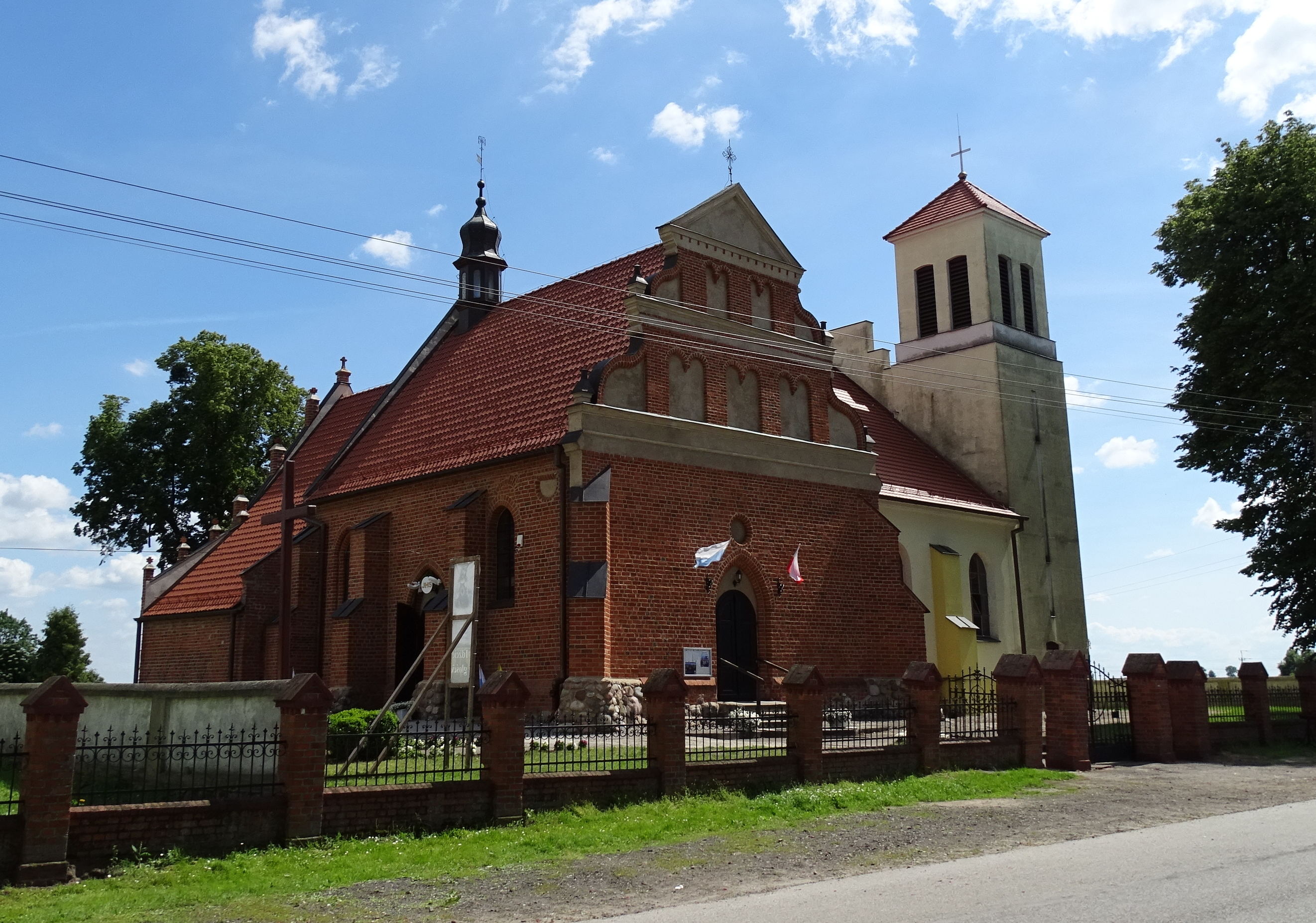 Grabie, Aleksandrów County, Kuyavian-Pomeranian Voivodeship, Poland. Church of St Wenceslaus. Built in the mid of the XIV century.